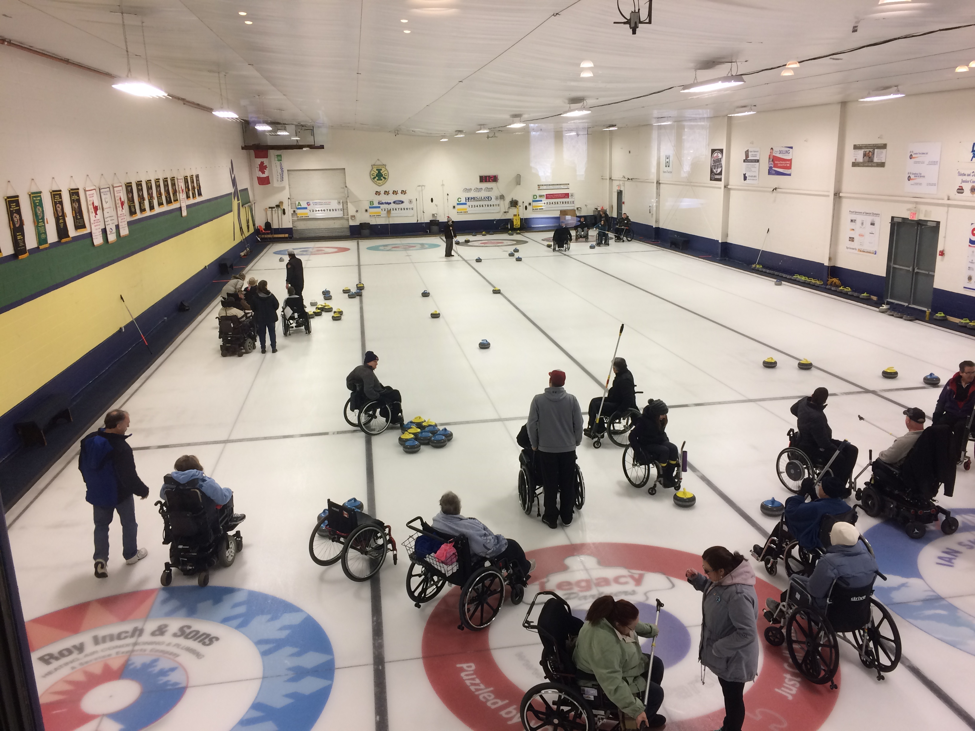 Wheelchair curlers competing at ICC